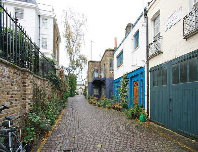 Kynance Mews, W8